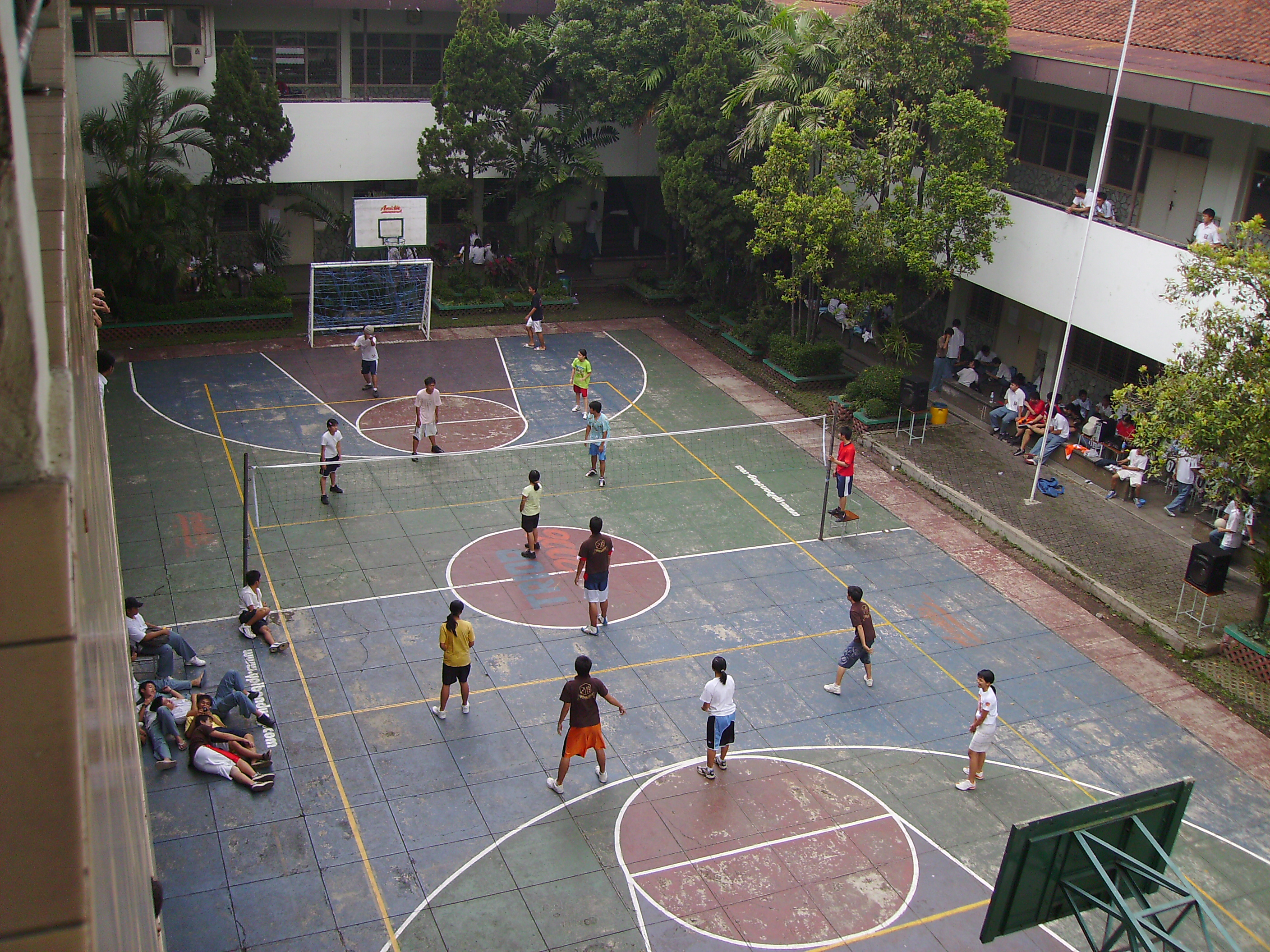 Indonesian High School students play volleyball in a school sport festival